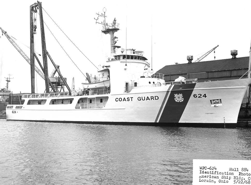 USCGC Dauntless, "Identification photo," starboard waterline view